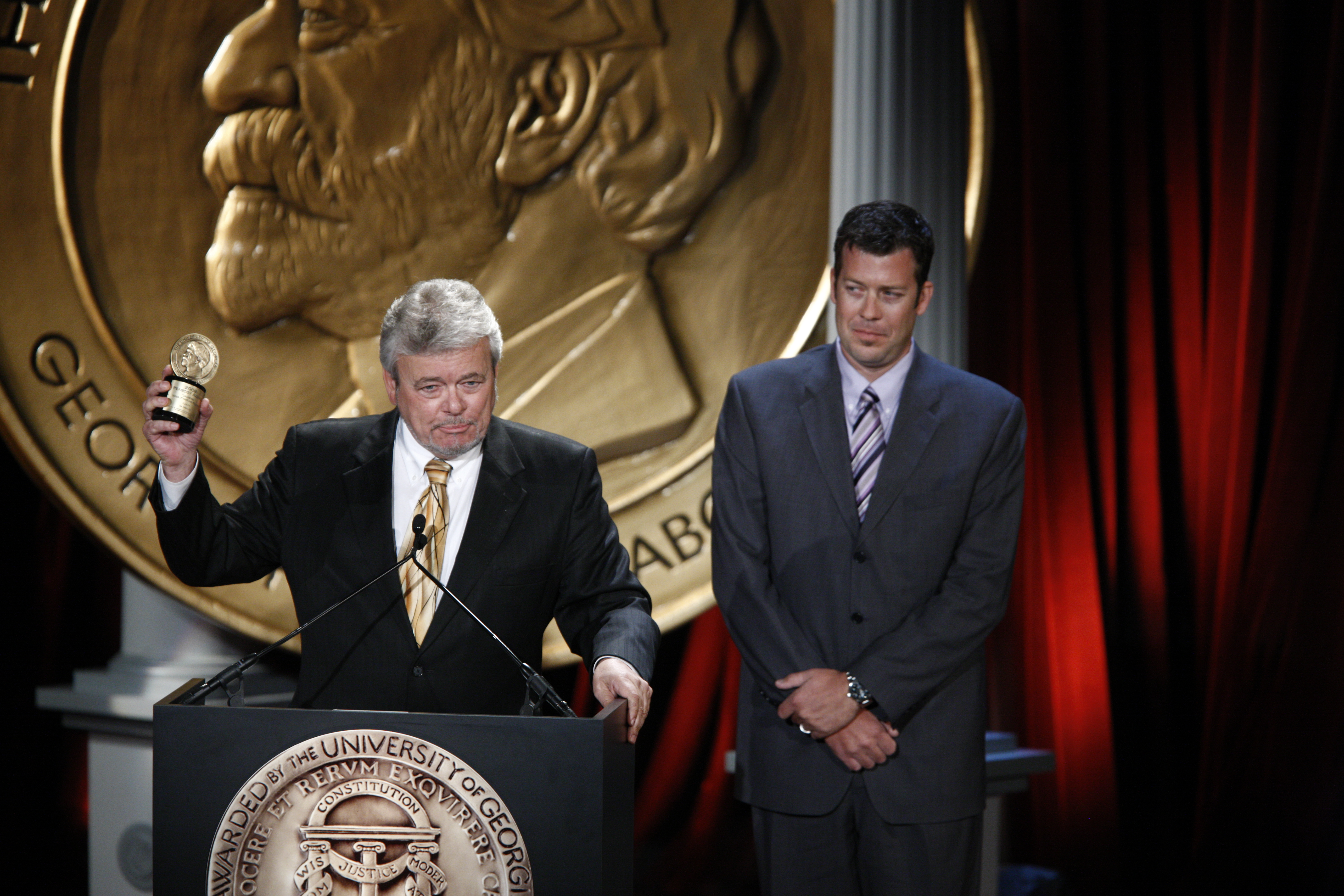 PHOTO CREDIT: ANDERS KRUSBERG / PEABODY AWARDS George Knapp and Matt Adams 69th Annual Peabody Awards Luncheon Waldorf=Astoria Hotel New York, NY USA May 17, 2010